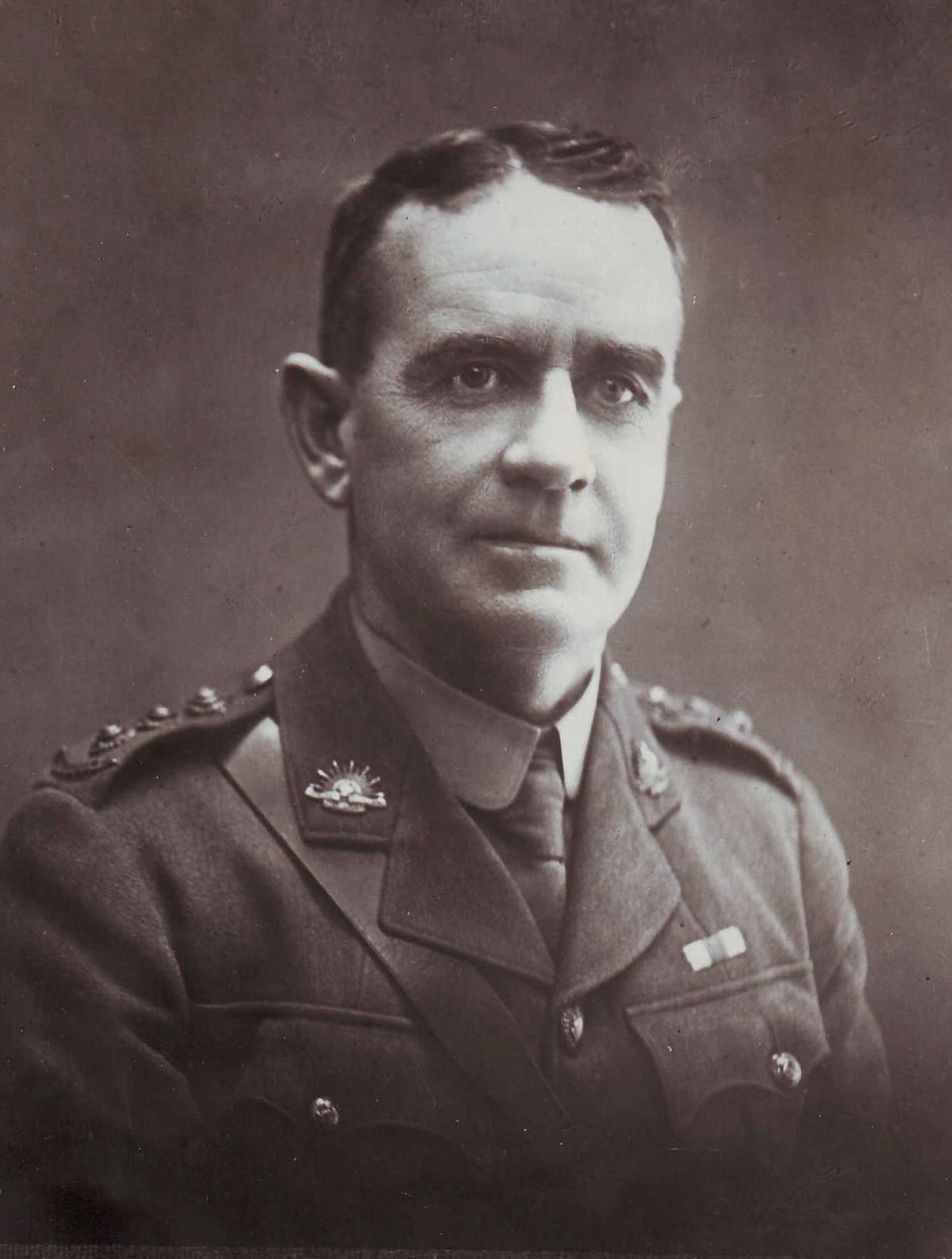 A sepia portrait of Captain William Joseph Denny MC MP in uniform